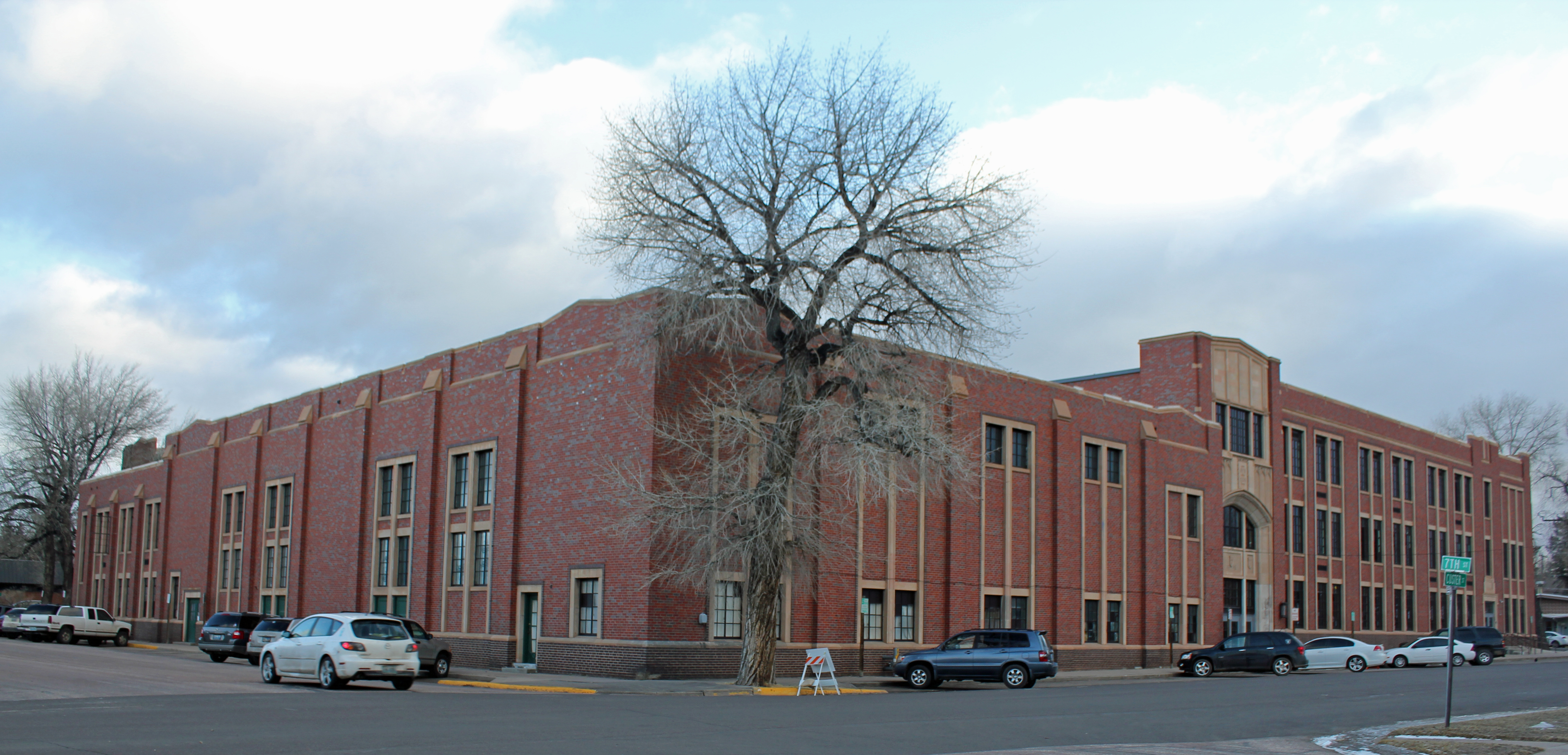 The East Side School, located at 710 East Garfield Street in Laramie, Wyoming. The former school occupies an entire city block. This view is from the corner of 7th and Custer streets. The view of the front of the building on East Garfield Street was blocked by heavy equipment when the photographer visited. The building is no longer a school and now (2014) houses the Laramie Plains Civic Center.